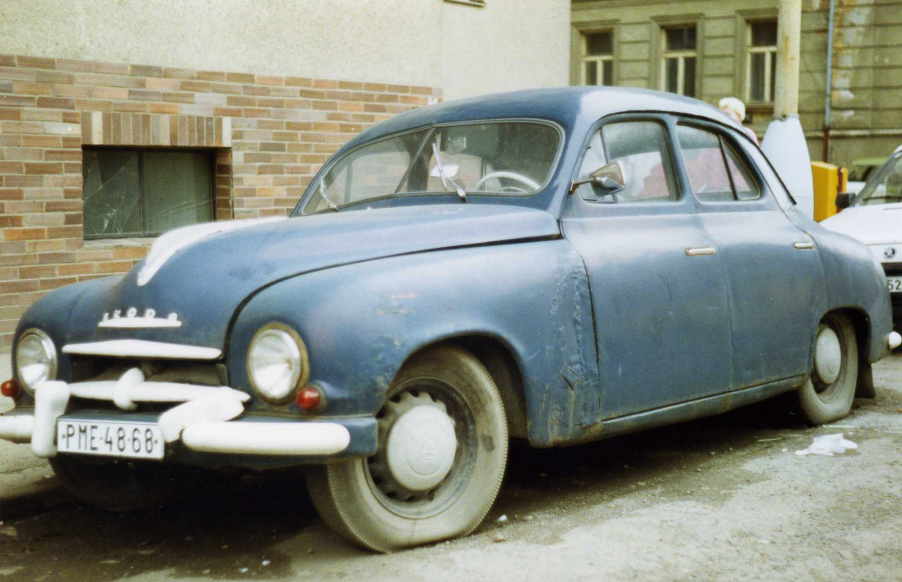 Škoda 1200 in Plzeň, Czech Republic